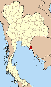 Map of Thailand highlighting Trat province